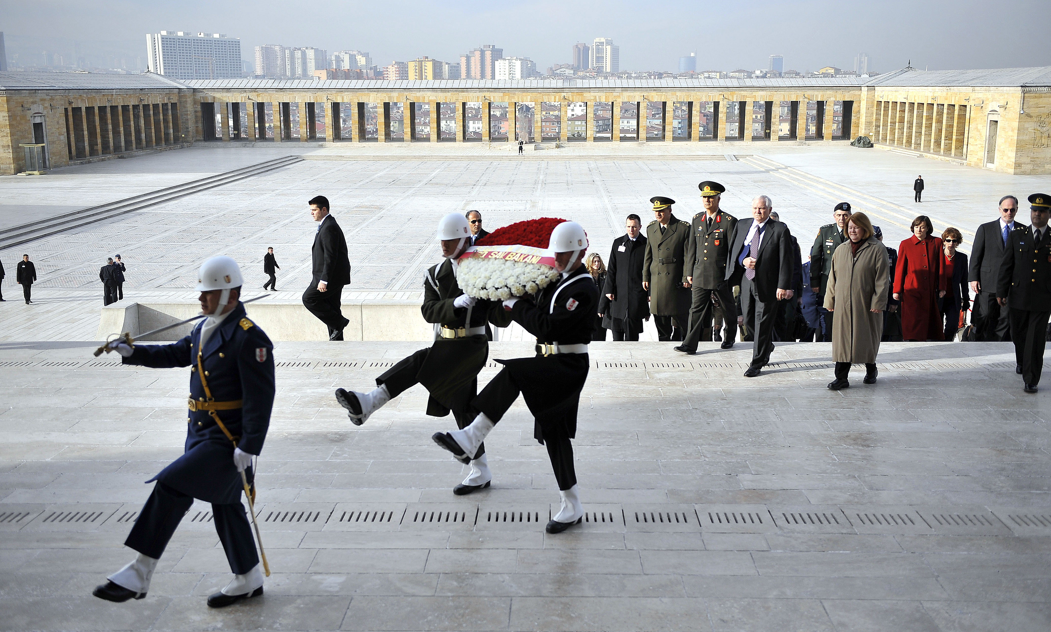 Secretary of Defense Robert M. Gates and his wife Becky attend a wreath laying ceremony at the tomb of Mustafa Kemal Ataturk in Ankara, Feb. 28, 2008. Gates will also meet with Turkish leaders to discuss defense issues during his trip.